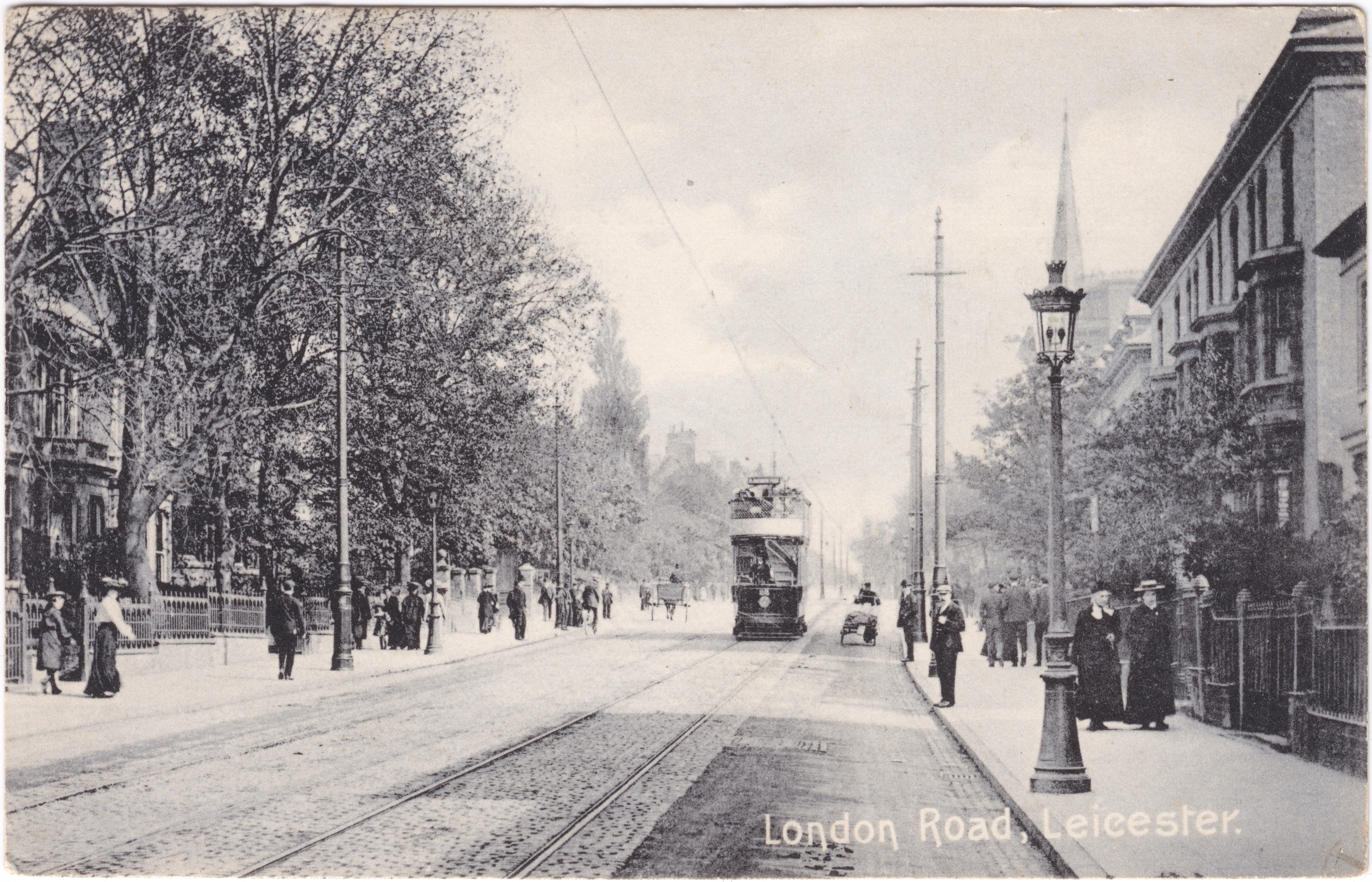 London Road, Leicester, in 1904 (first electric trams) or 1905 (postmark).